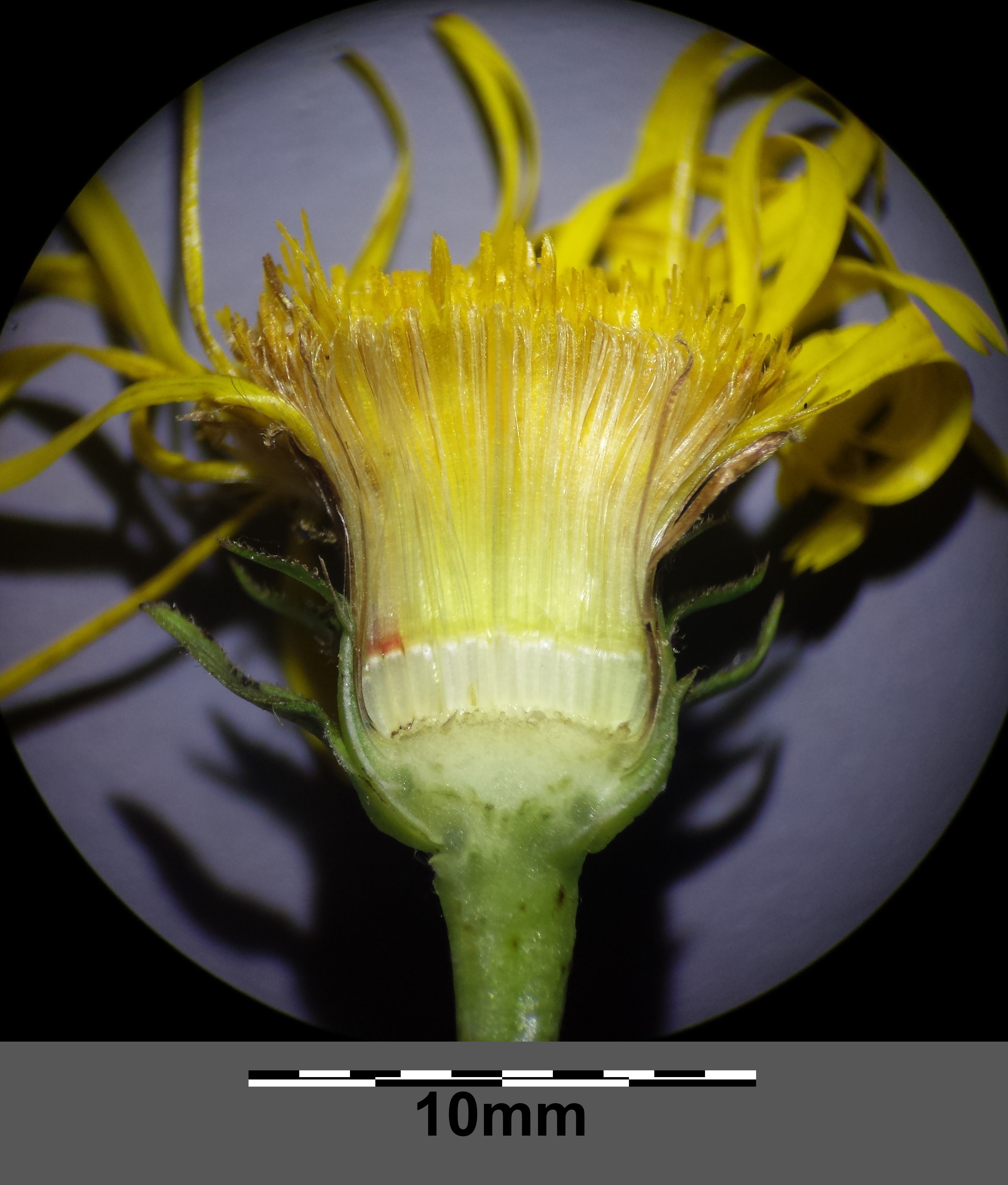 Capitulum, opened Taxonym: Inula salicina ss Fischer et al. EfÖLS 2008 ISBN 978-3-85474-187-9 Location: near Steinberg near Niederhollabrunn, district Korneuburg, Lower Austria - ca. 340 m a.s.l. Habitat: dry meadows